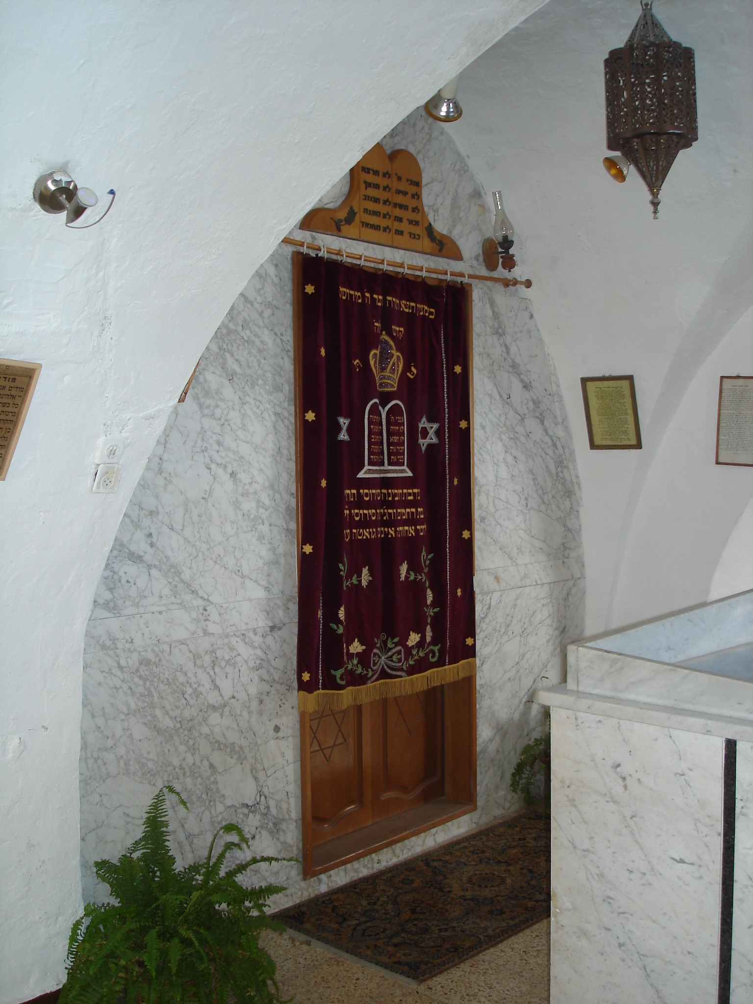 Libyan synagogue of jaffa - The Aron Kodesh